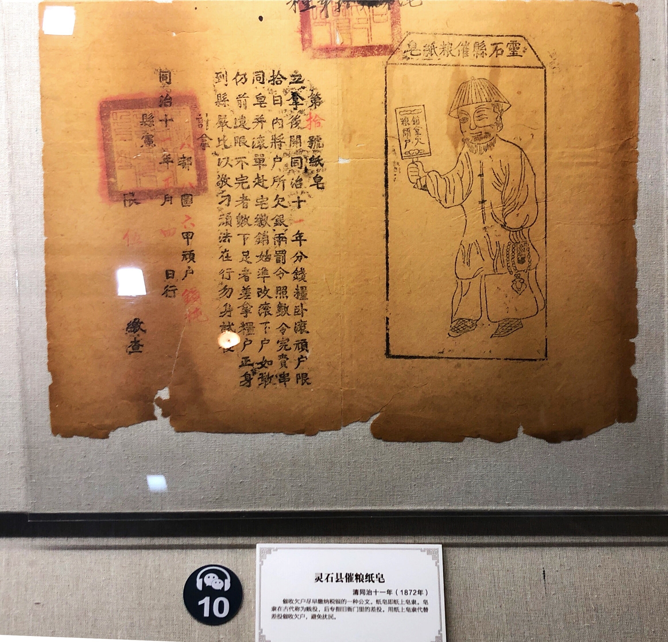 On the right side of it, it’s a yamen runner with a board in his right hand, saying, arrest for the recalcitrant citizen. On top of his head, we can read it’s for calling the duty grain in arrears in Shiling County. On the left side write the content of the notification which says the tax defaulter should pay the tax in ten days and then go to modify the recording. It also threatens that if he fails to do that in time, he will be arrested to the court and punished strictly. It claims that the tax defaulter shouldn’t try to break the law. After the warning follows his address(八都八图六甲), name(钱忳) and the date(Jan 4th, 1872, eleventh year in TongZhi’s regime).